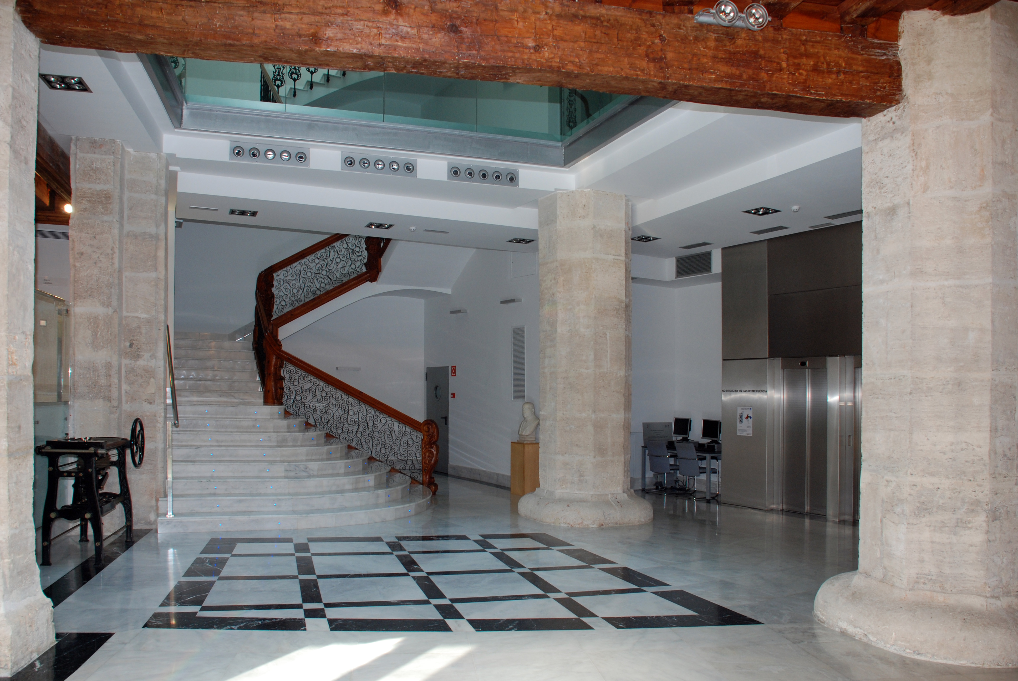 Intituto de Historia de la Medicina y de la Ciencia López Piñero